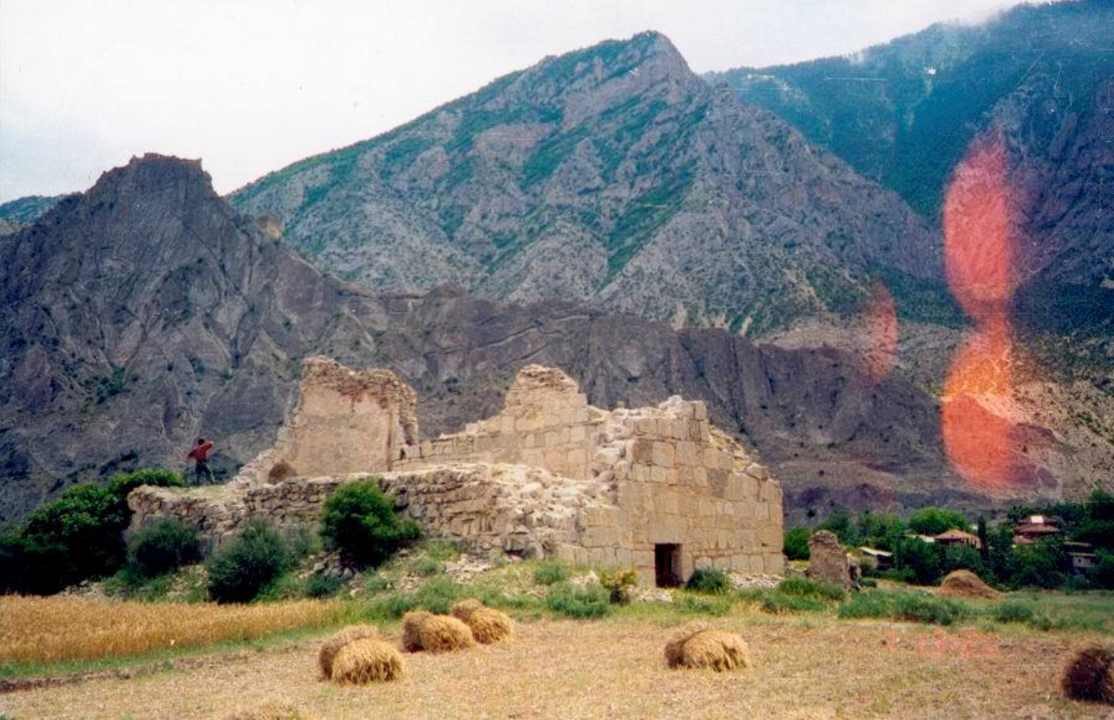 Georgian Architectural Complex of Esbeki, now Turkey.